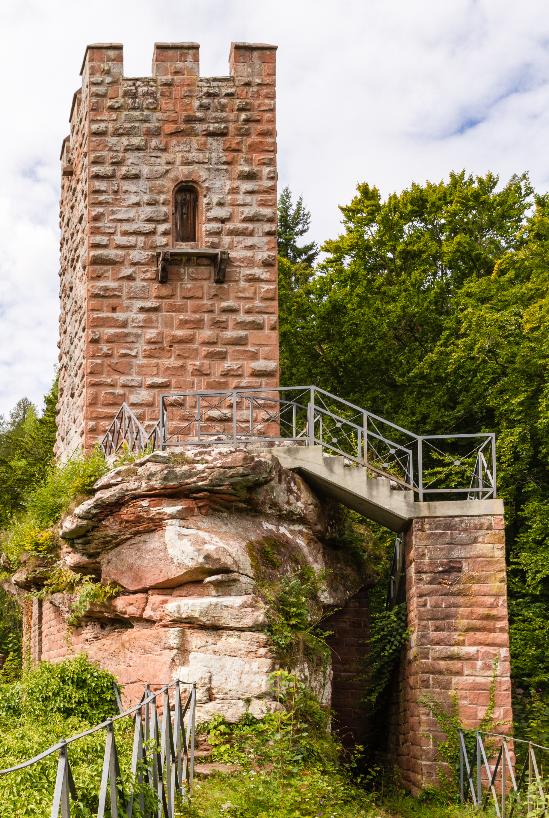 Designation: Monument zone castle ruin Erfenstein Location: Erfenstein (southeast of the village on a rocky outcrop of the Wassersteiner mountain overlooking the valley of Elmstein). Place: Esthal, District Bad Dürkheim, Rhineland-Palatinate Construction time: Founded probably mid-13th century Description: Castle of the Counts of Leiningen, two-piece hill castle in mountain spurs, 1470 destroyed. Remains of the circular wall and the donjon, bossage, the "Old Castle", donjon of the main castle, Sandstone-bossage